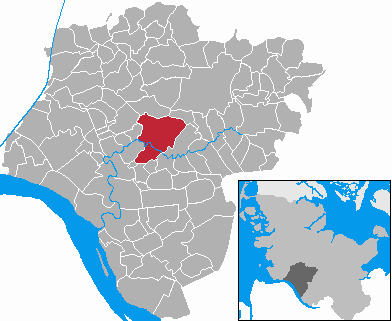 This map shows the area of the Stadt (town) Itzehoe in the Kreis (district) Steinburg, Schleswig-Holstein, Germany.